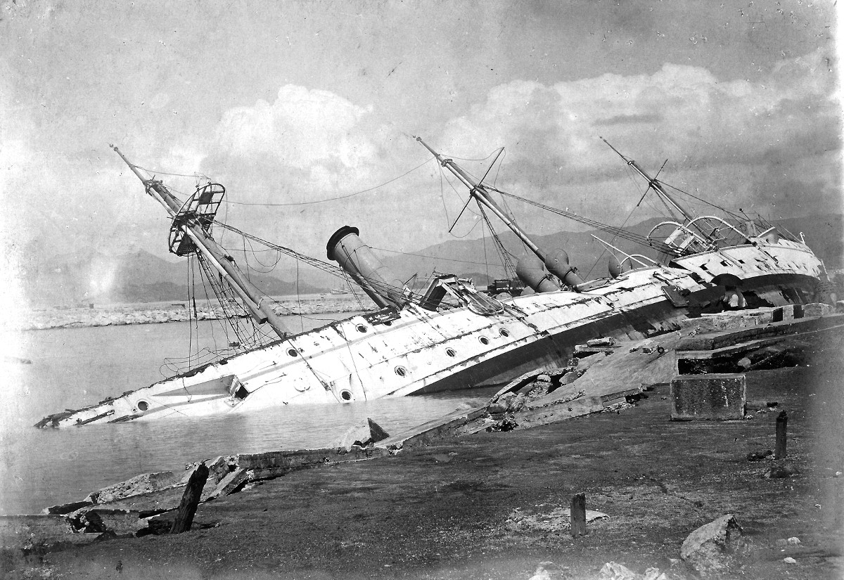 The Royal Navy’s HMS Phoenix lies wrecked on the shore of Yaumatei in September 1906